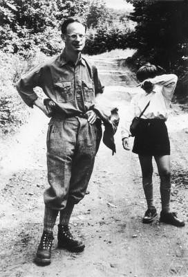 Andre Weil, mathematician